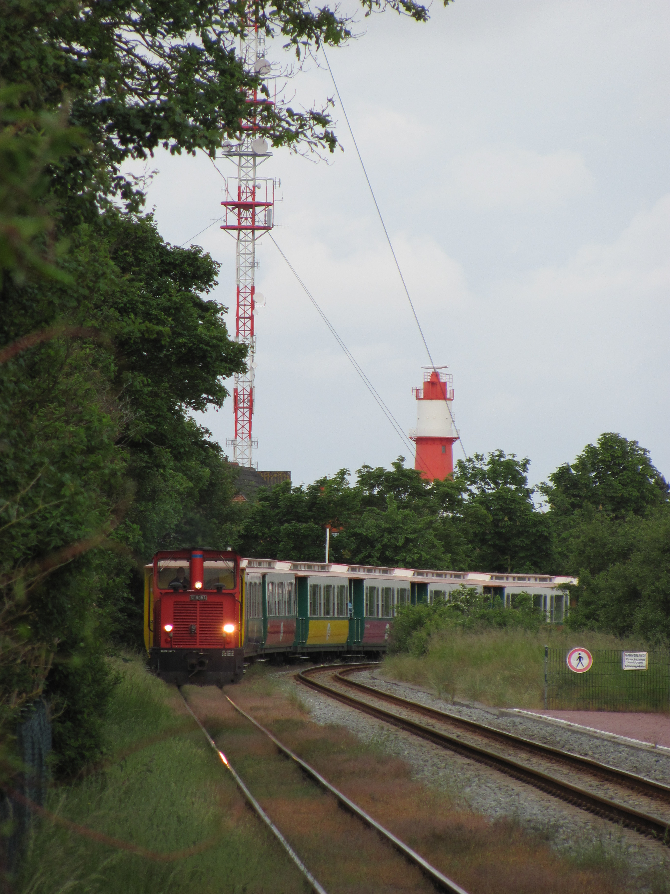 Borkumer Kleinbahn & Electric Lighthouse, Borkum, Germany